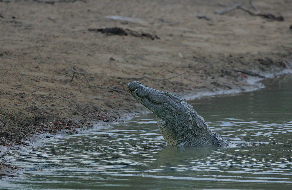 My daughter kindly agreed to hang from a nearby tree in an attempt to bring this mugger to life. Getting the shot is everything! :-)